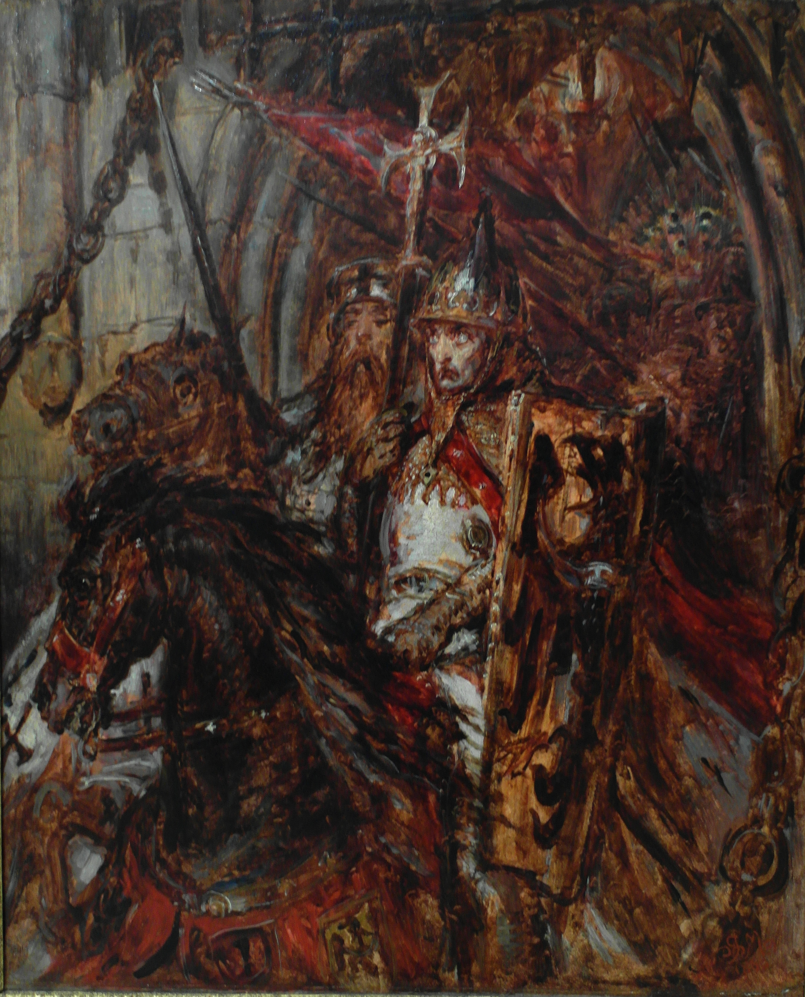 Henry II the Pious departing from Legnica, sketch by Jan Matejko 1866